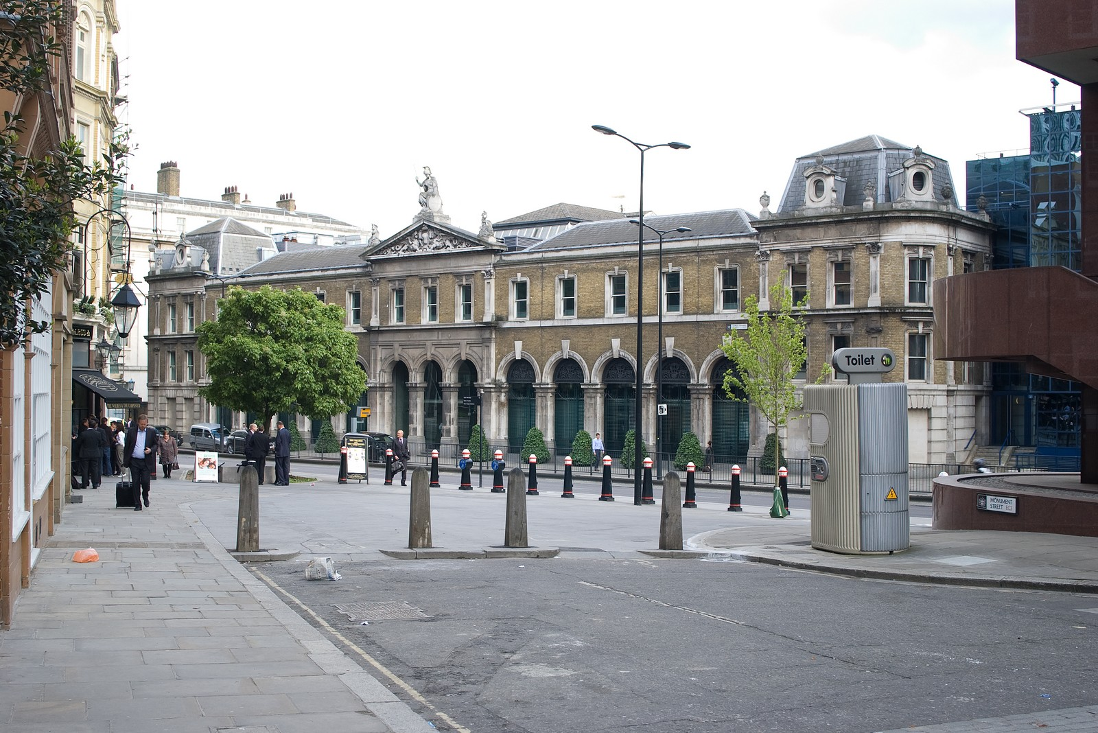 Old Billingsgate Market